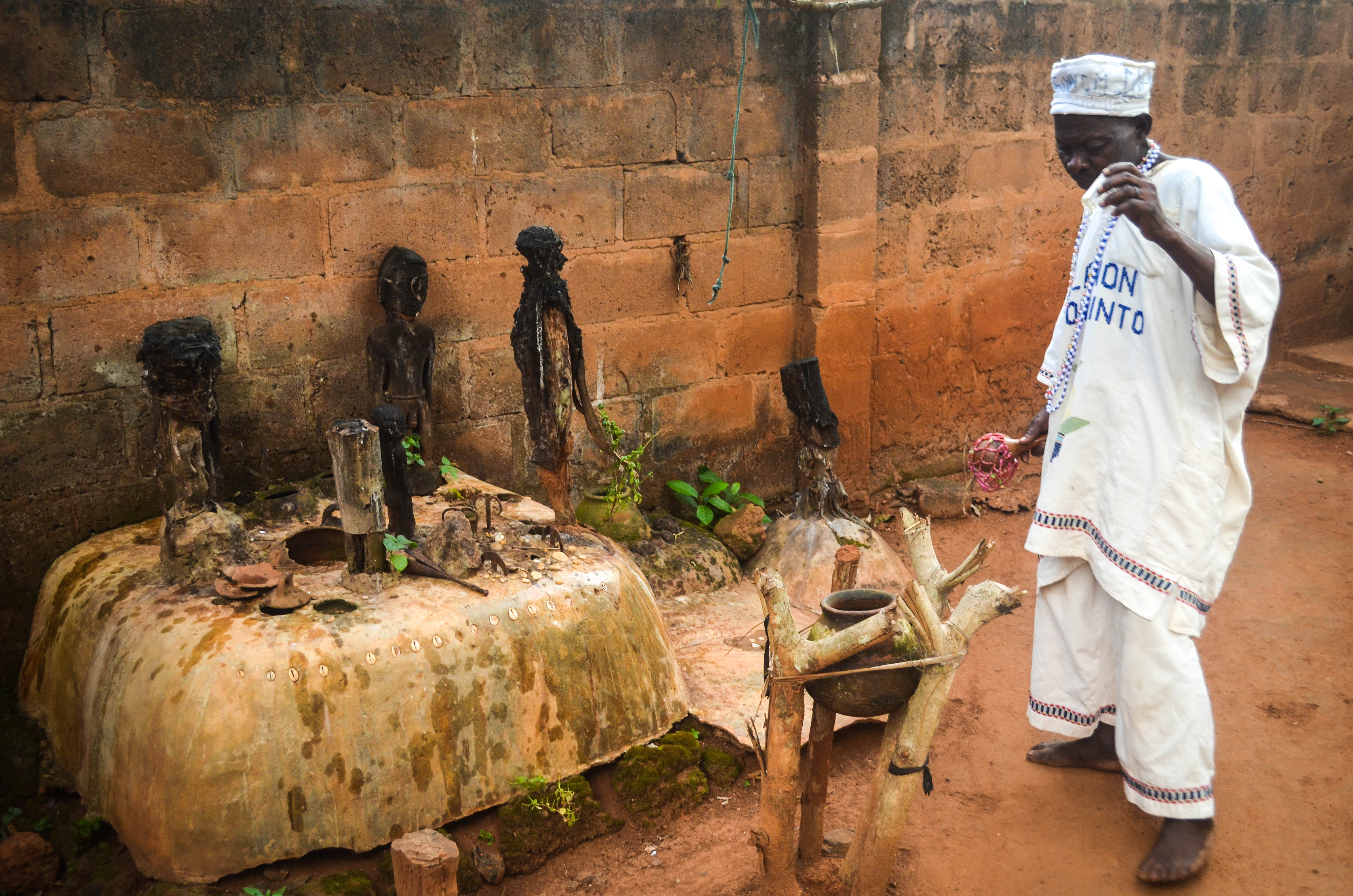 Taken on 07 October 2013 in Benin around Abomey : Cycling Africa beyond mountains and deserts until Cape Town